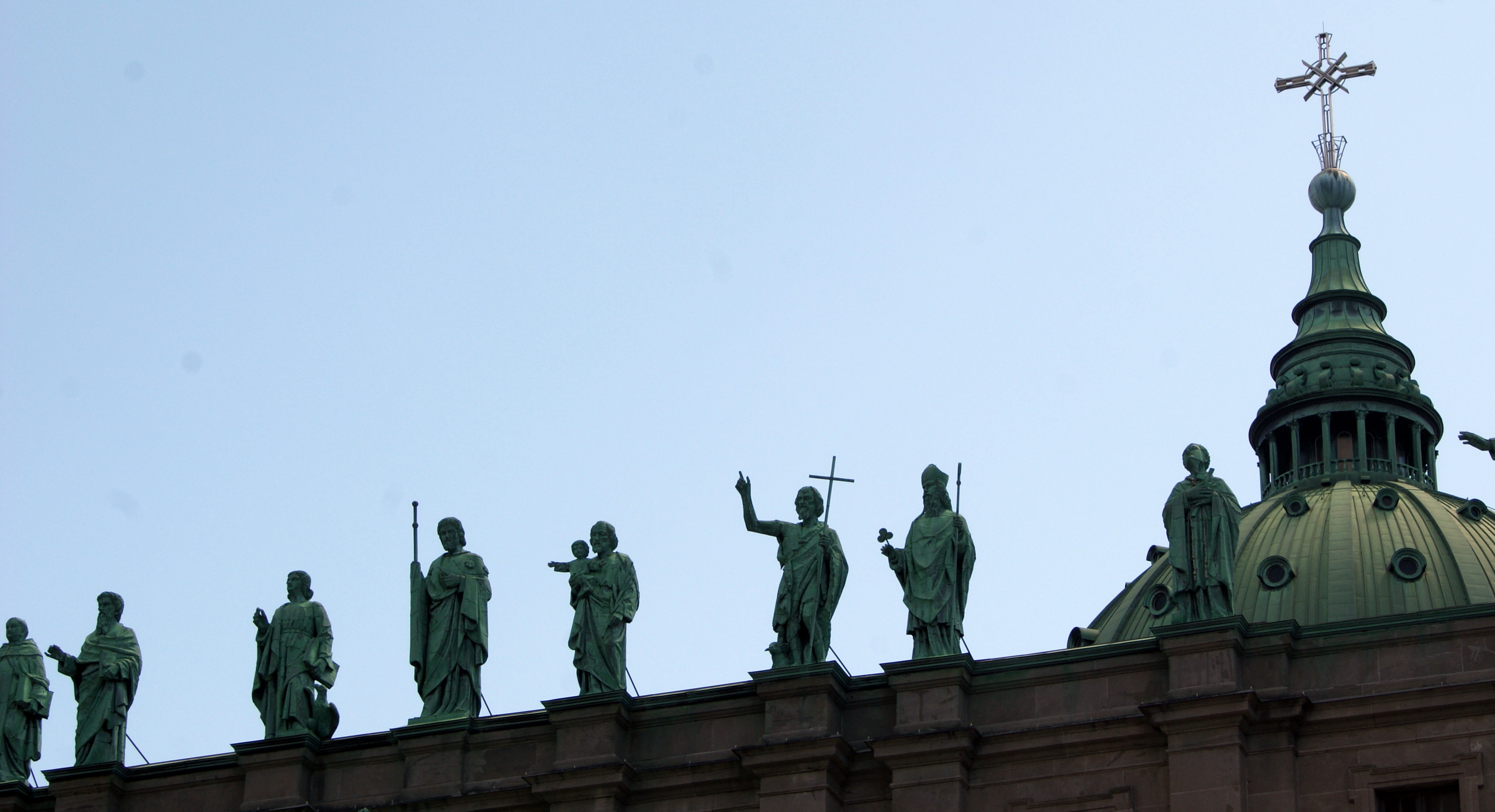 Cathedral-Basilica of Mary, Queen of the World